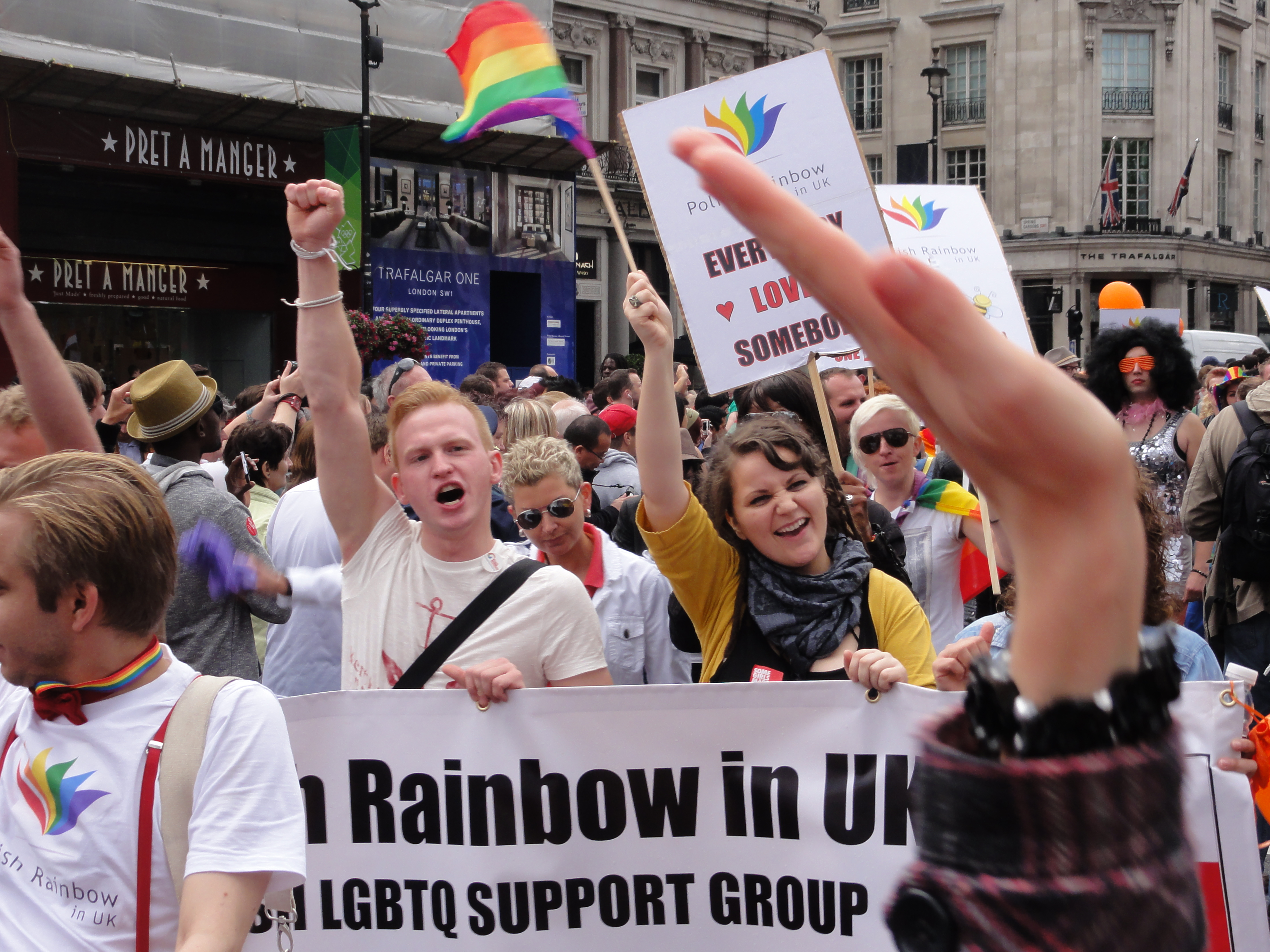 Photos at Trafalgar Square during World Pride / Pride London 2012.